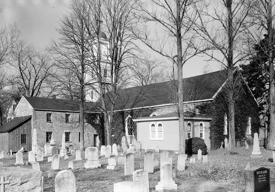 St. Ignatius Catholic Church, Hickory, Maryland, USA. Cropped.